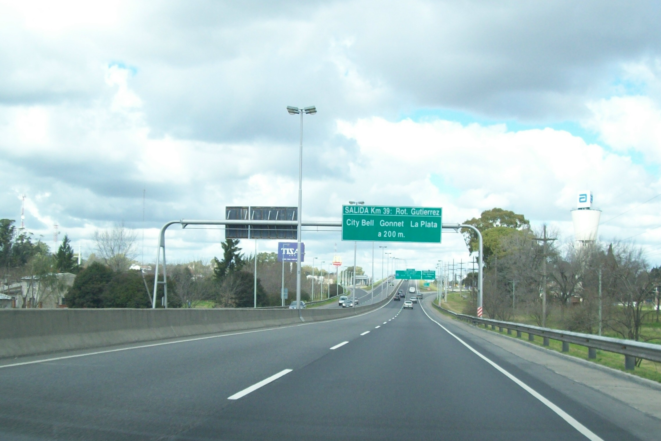 National Route A004 near Juan María Gutiérrez roundabout, in Greater Buenos Aires, Argentina.